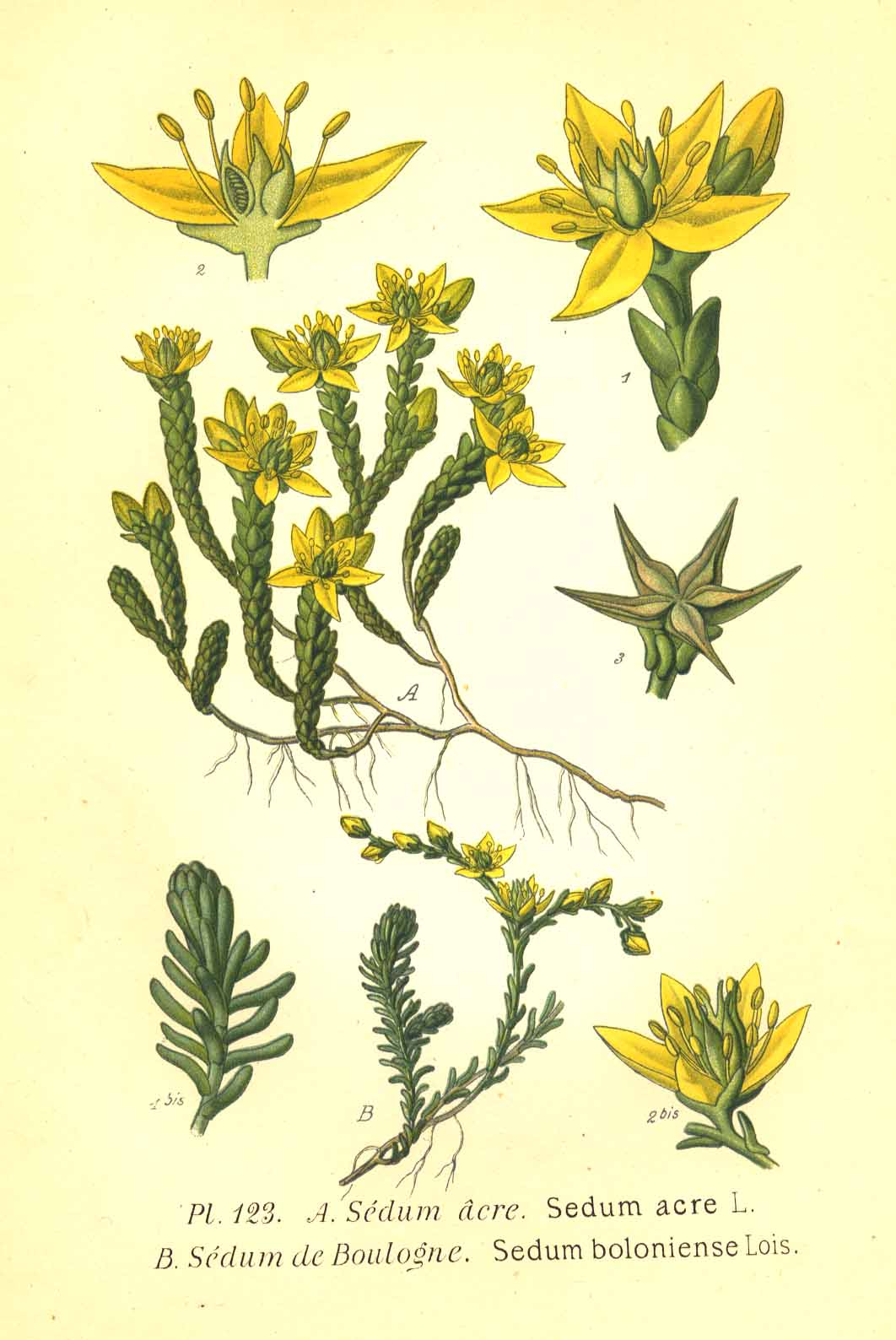 Sedum acre L., Sedum sexangulare L., syn. Sedum boloniense Lois.